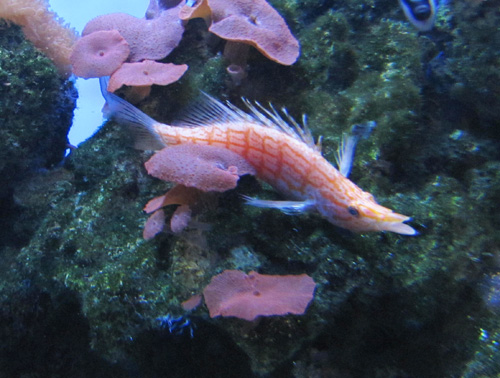 Oxycirrhites typus in Särkänniemi Akvaario, Tampere, Finland